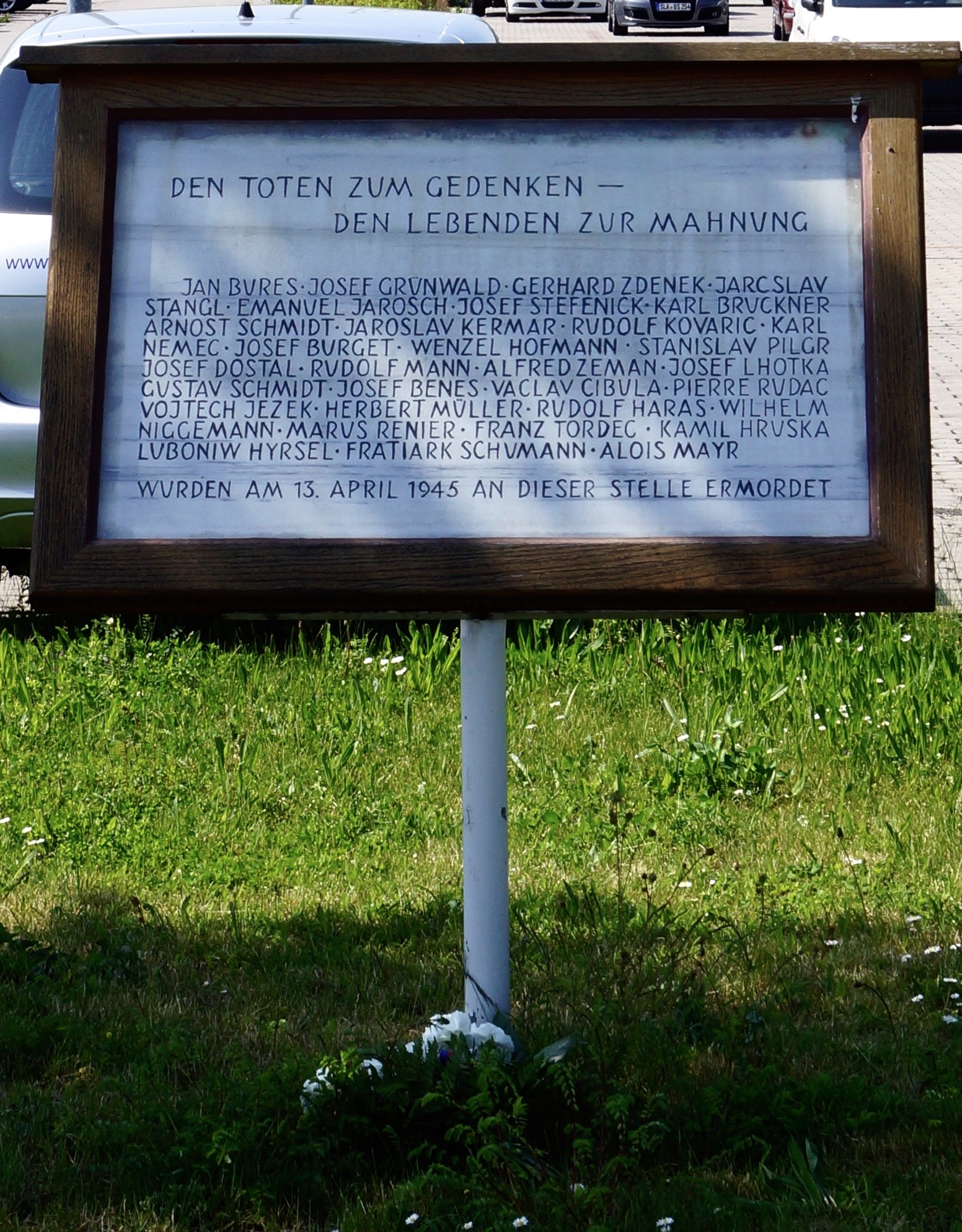 Memorial to the Murdered April 13, 1945 in the barracks Gohlis (now General Olbricht barracks)